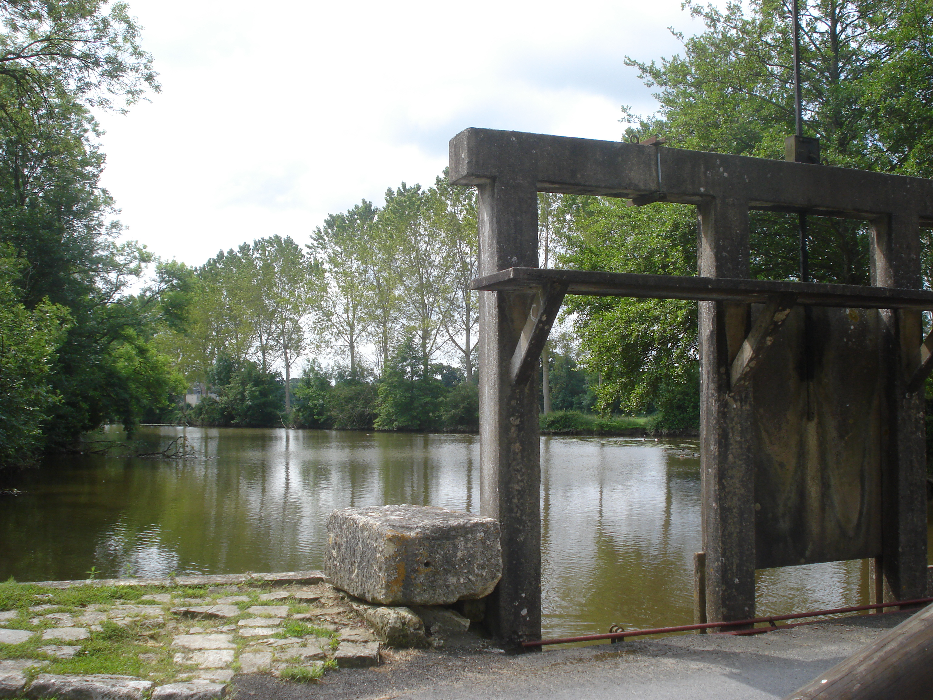 Indre river at Clavières, Ardentes (Indre, Fr).